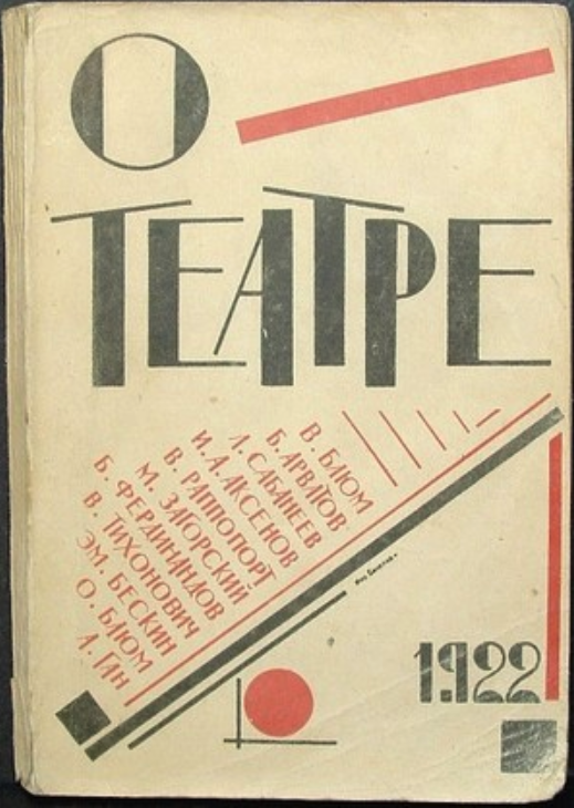 Constructivist book cover